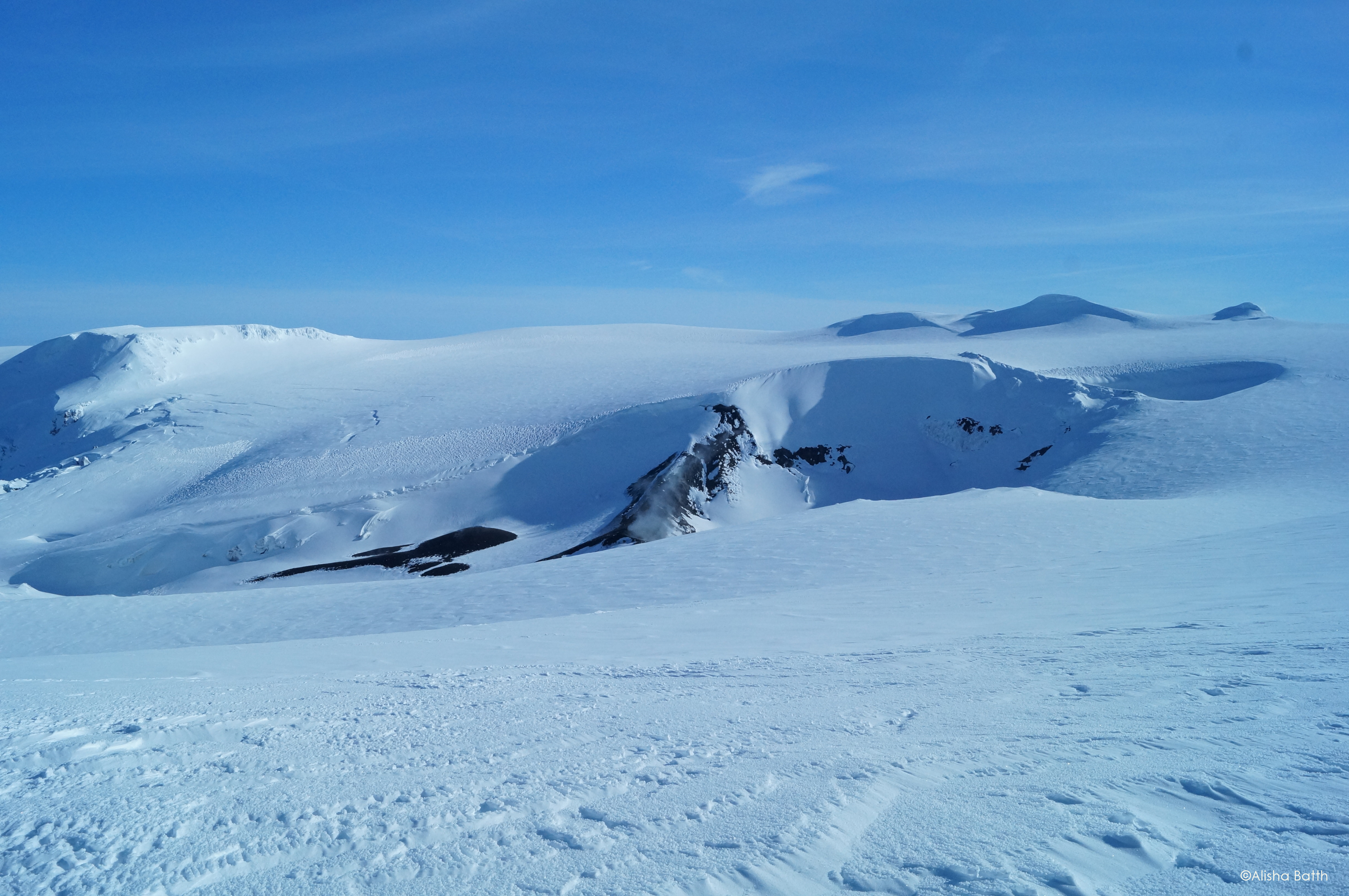 This picture shows the Eyjafjallajökull crater three years post eruption. Taken March 2013.